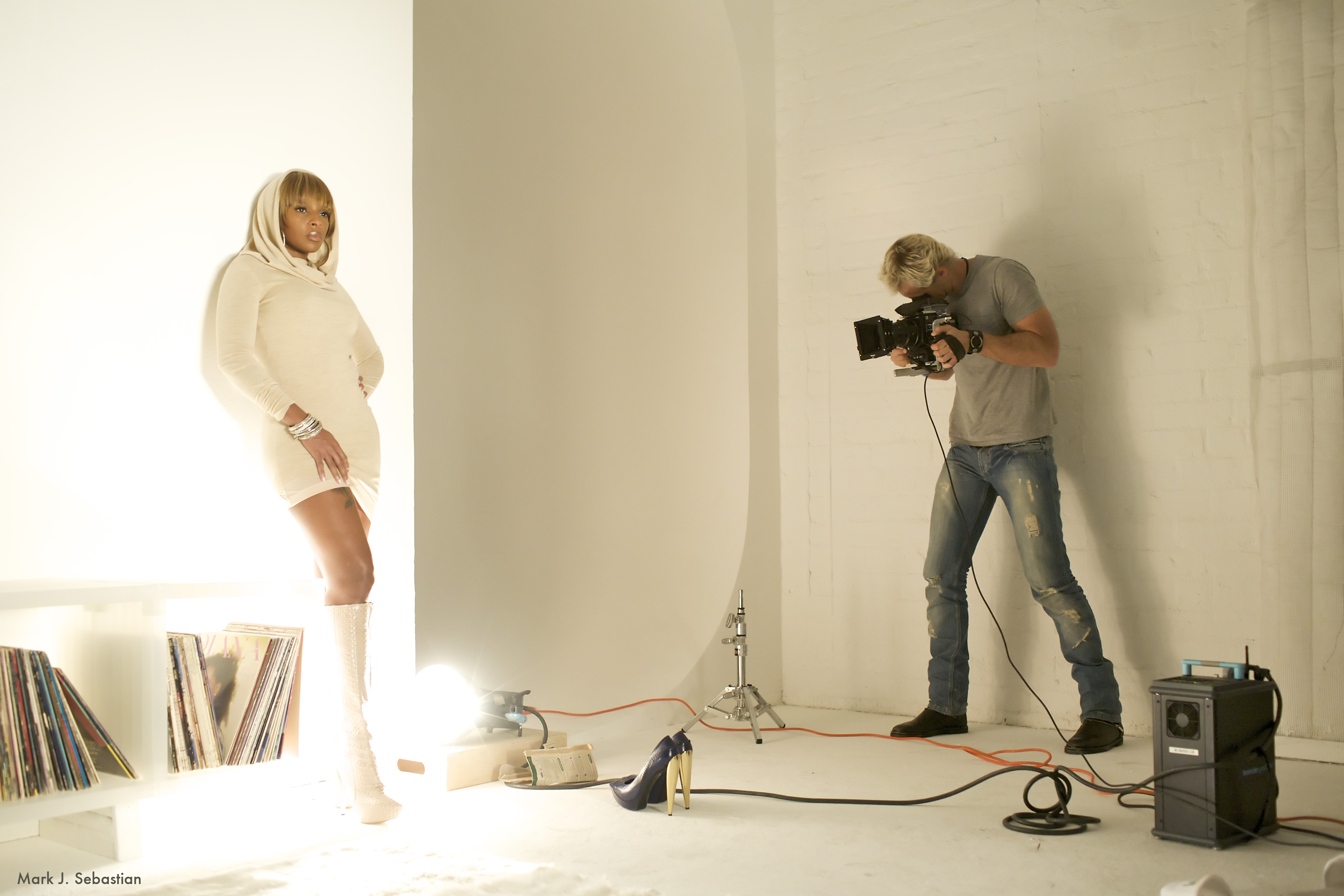 Mary J. Blige posing for the photographer Markus Klinko.